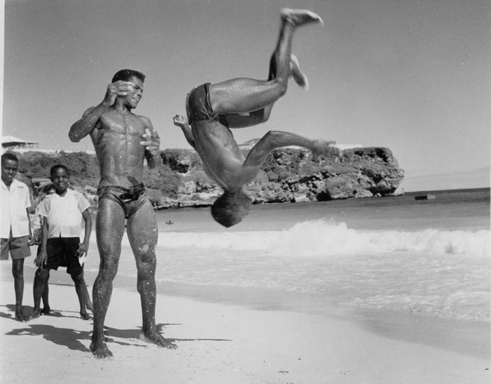 Description: "Barbadian youths practice physical exercises and acrobatics on the beach at Foul Bay, near Crane Beach, on the South East coast of Barbados." Official photograph for the Central Office of Information. Date: March 1955 Our Catalogue Reference: INF 10/39/21 This image is from the collections of The National Archives. Feel free to share it within the spirit of the Commons. For high quality reproductions of any item from our collection please contact our image library.